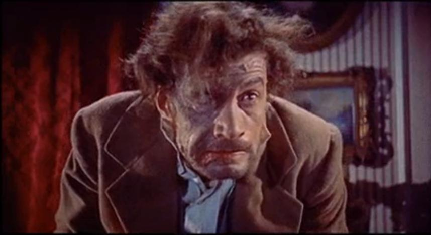 A screenshot from The Revenge of Frankenstein